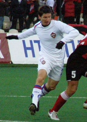 Evgeny Aldonin in action for PFC CSKA Moscow